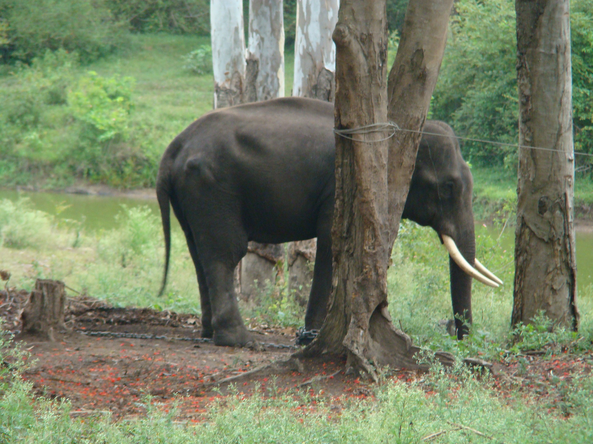 A Tusker at Dubare Elephant Camp.